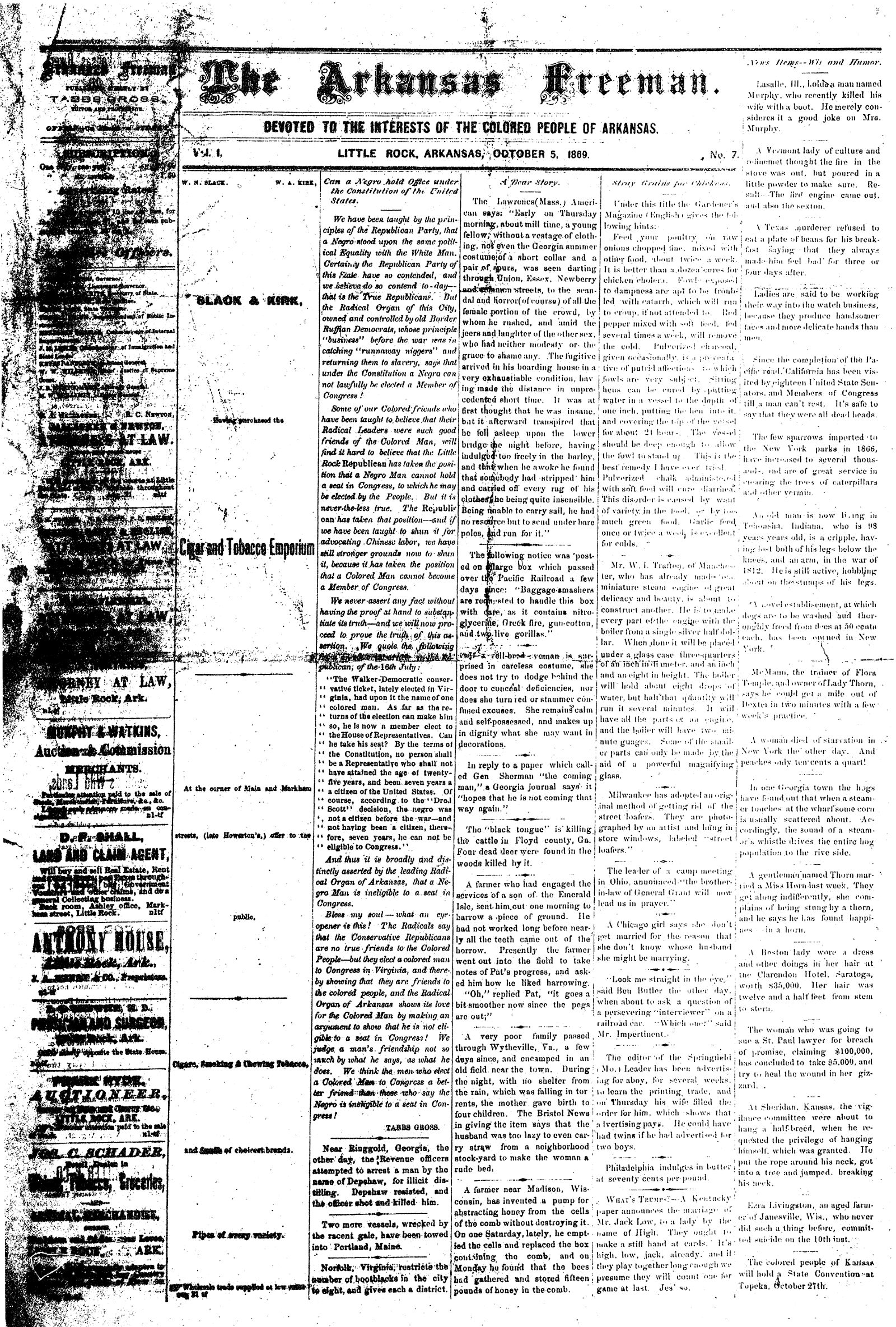 Front page of the October 5, 1869 issue of the Arkansas Freeman, the first known African American newspaper in the state of Arkansas. The third column contains an editorial by publisher and editor Tabbs Gross (1820–1880), excoriating the Arkansas Republican Party and Little Rock Republican newspaper for taking the position that an African American cannot serve as a member of the United States Congress.